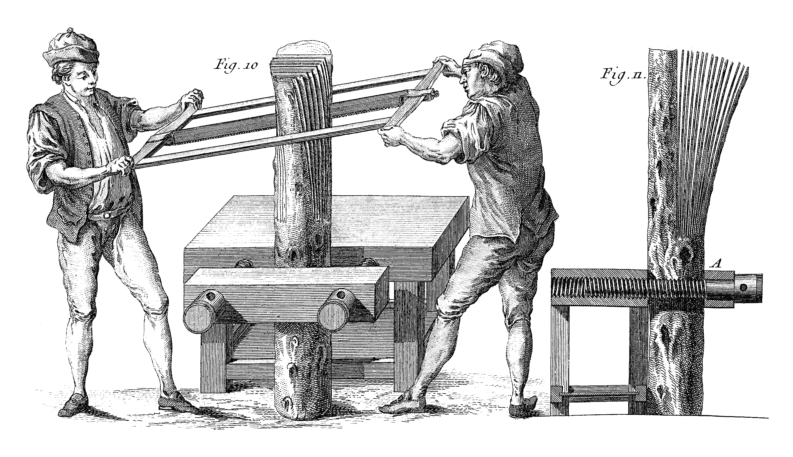 Veneer sawing (Roubo, J. A.: L'art du menusier. Paris, 1769. p. 278)